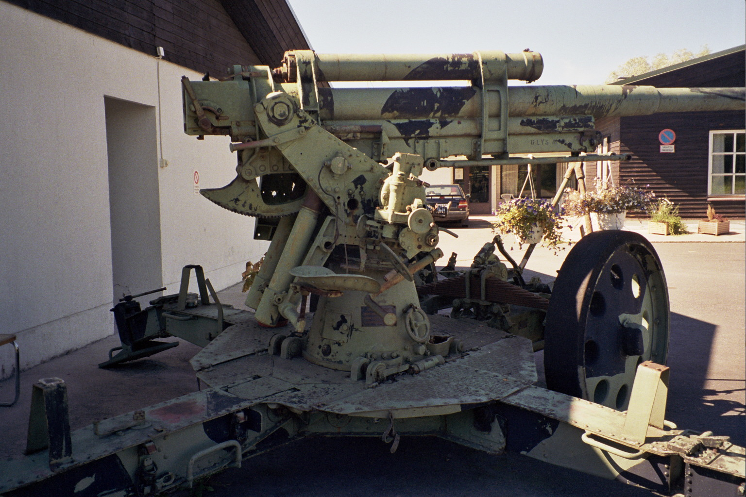 76 mm anti-aircraft gun model 1931 in Kempele, Finland. The weapon is obviously Soviet-made, while the design is heavily based on an earlier AA gun made by the German Rheinmetall.